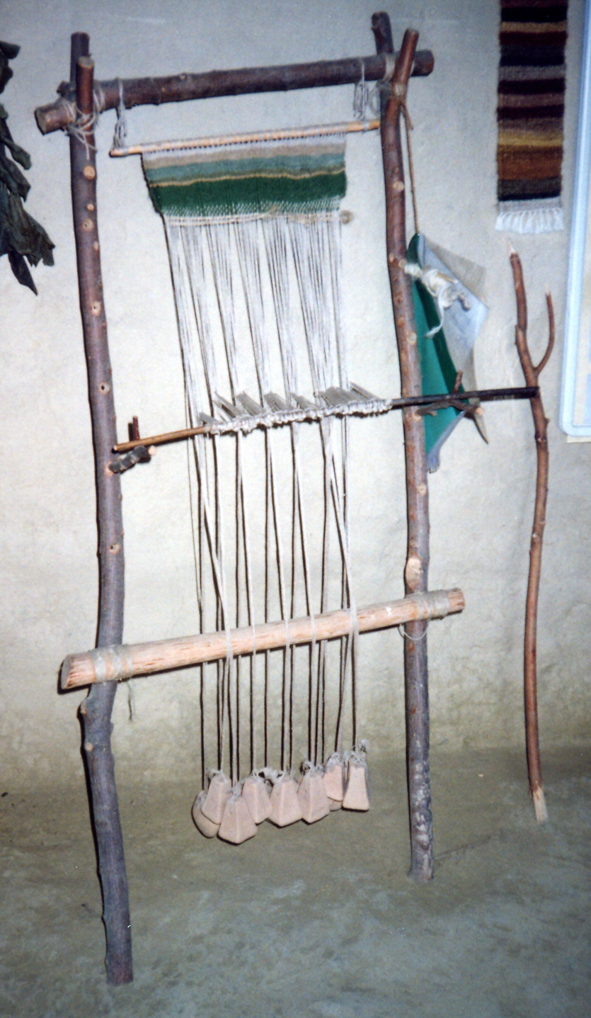 Reproduction of a primitive weaving stand from the prehistoric age. Exhibited in the Open-Air Museum of Százhalombatta/Hungary, on location of excavations.